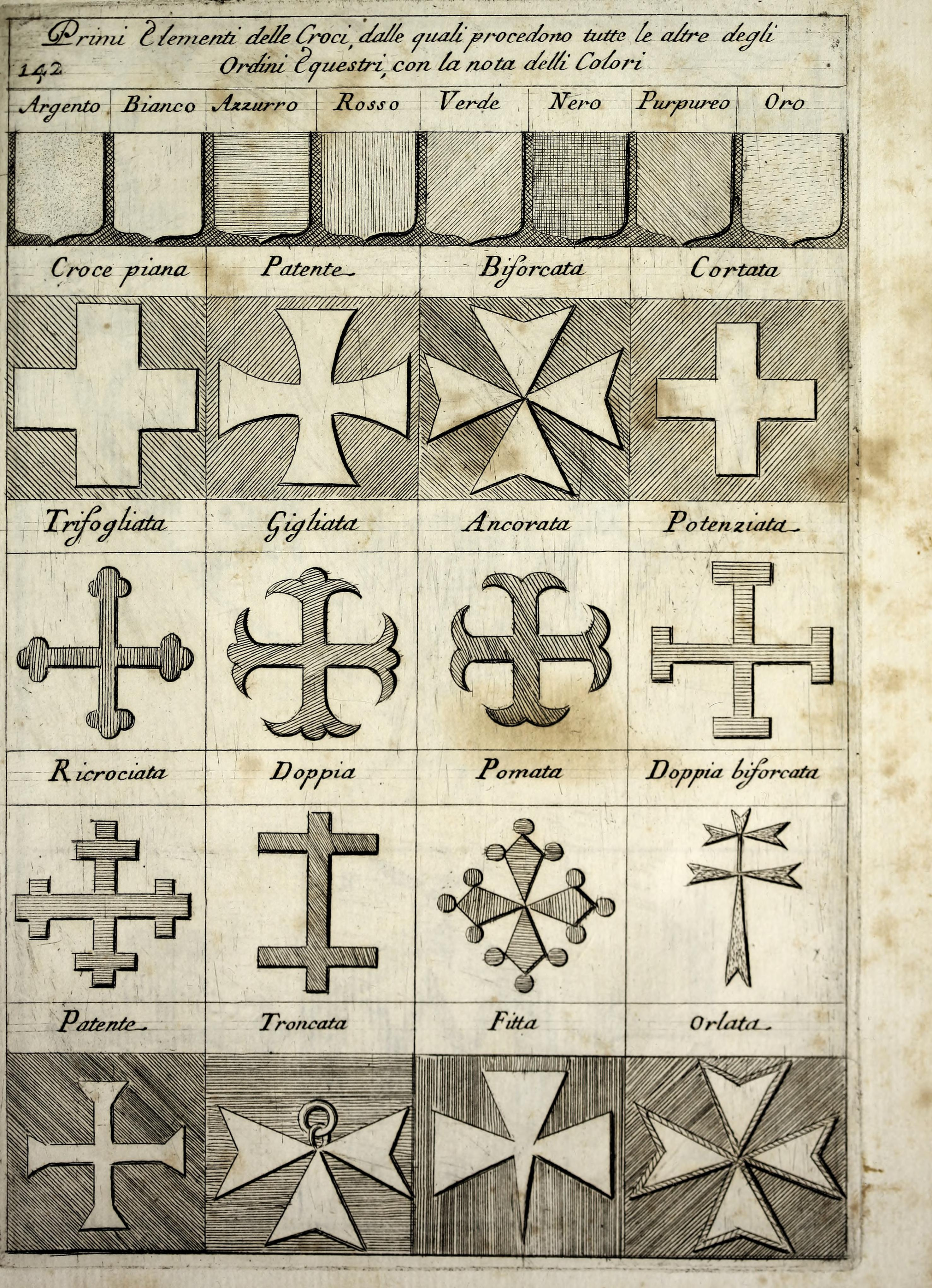 Hatching system of Filippo Bananni, 1711, table 142